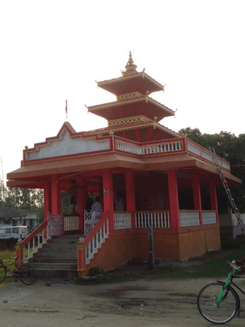 This is the main temple of Katahariya.This is the symbol of faith.Anyone who speaks false here is beleived that he/she is punished by the goddess Boudhimata.It is very old temple but it was rebuilt by the people of villages in the new style recently.